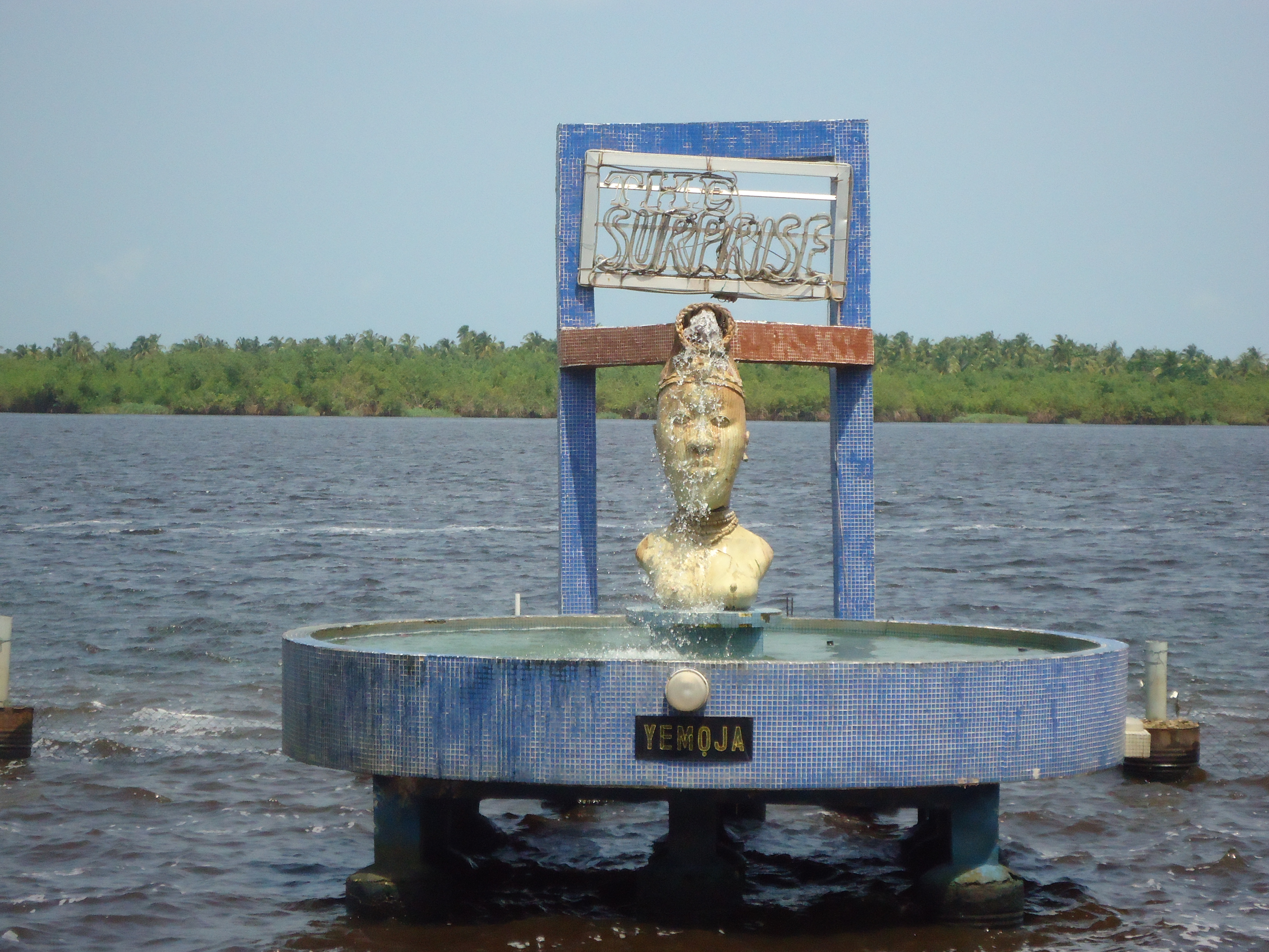 Statue of a mermaid, popularly known as 'yemoja' in Nigeria. This is an image of Cultural Fashion or Adornment from Nigeria